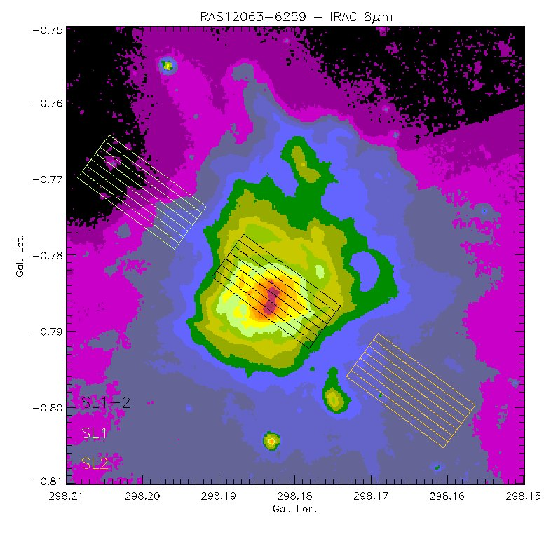 IRAC8 image of the compact HII region IRAS 12063-6259 created by E.Peeters